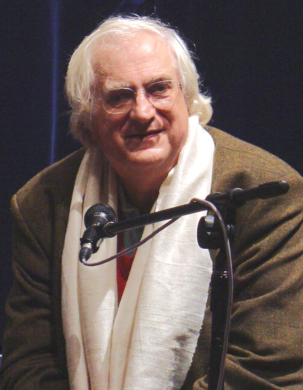 Bertrand Tavernier, French director, screenwriter, actor, and producer.